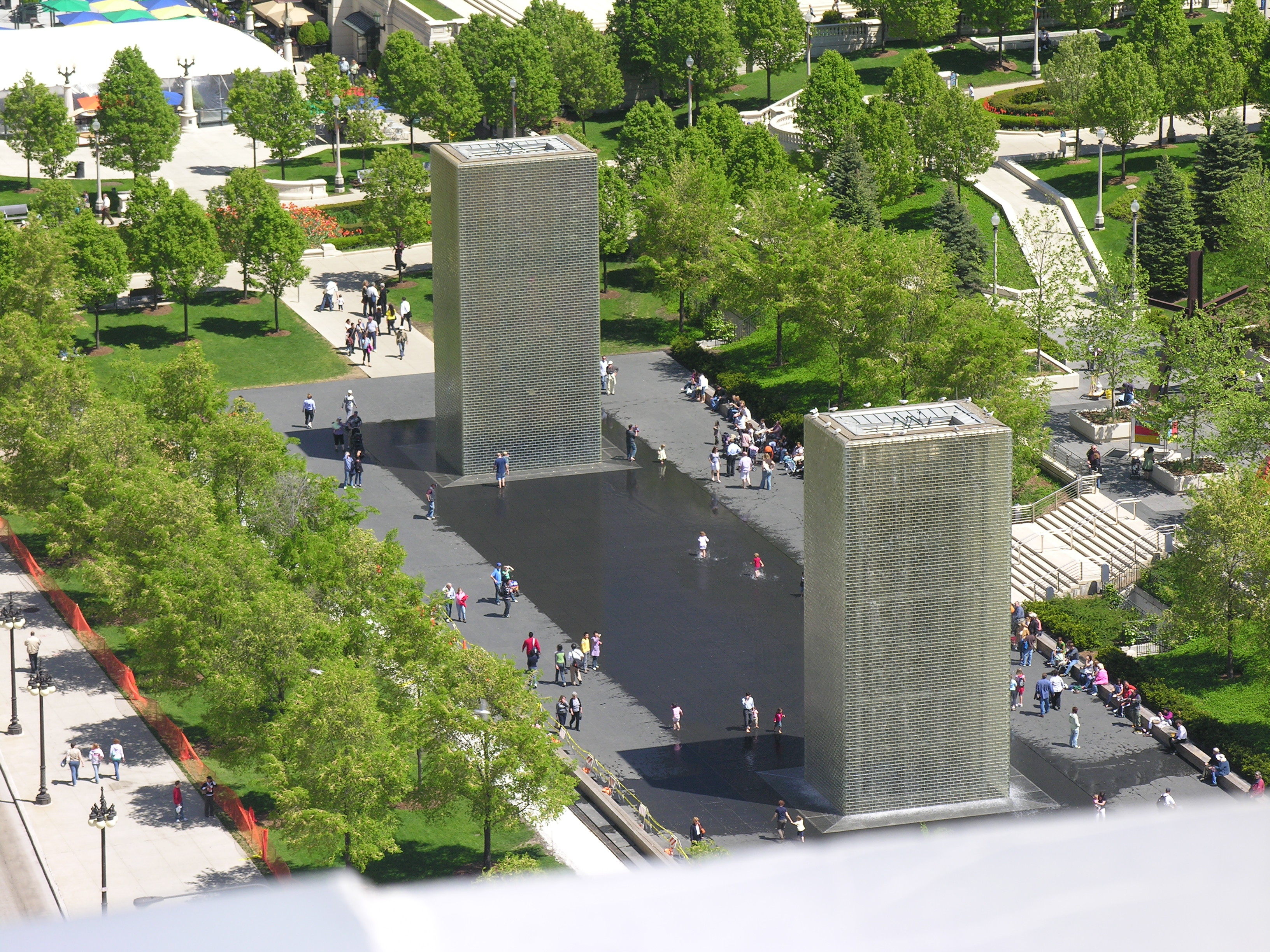 Crown Fountain, Millenium Park, from overhead